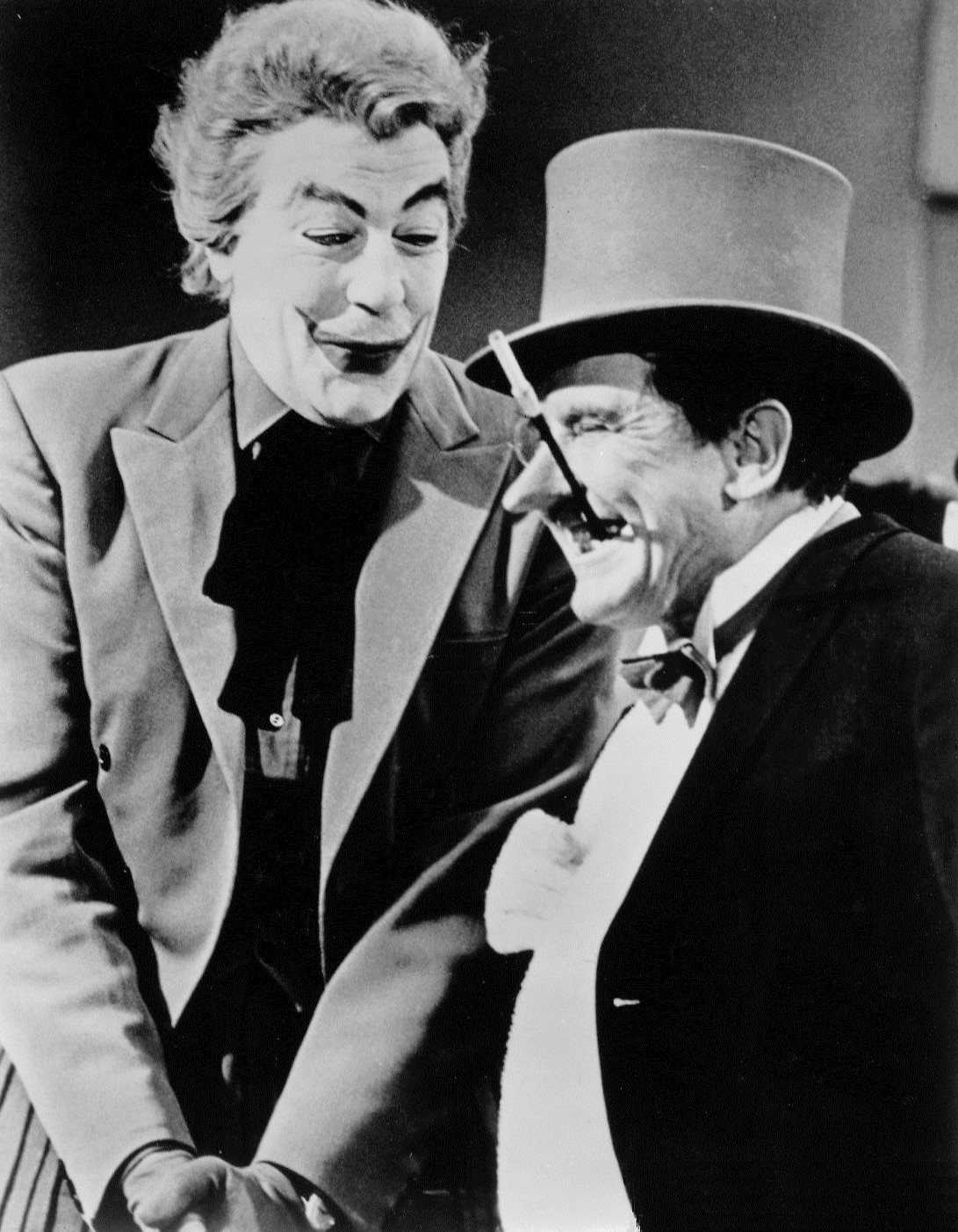 Photo of Cesar Romero as The Joker and Burgess Meredith as The Penguin from the television program Batman.